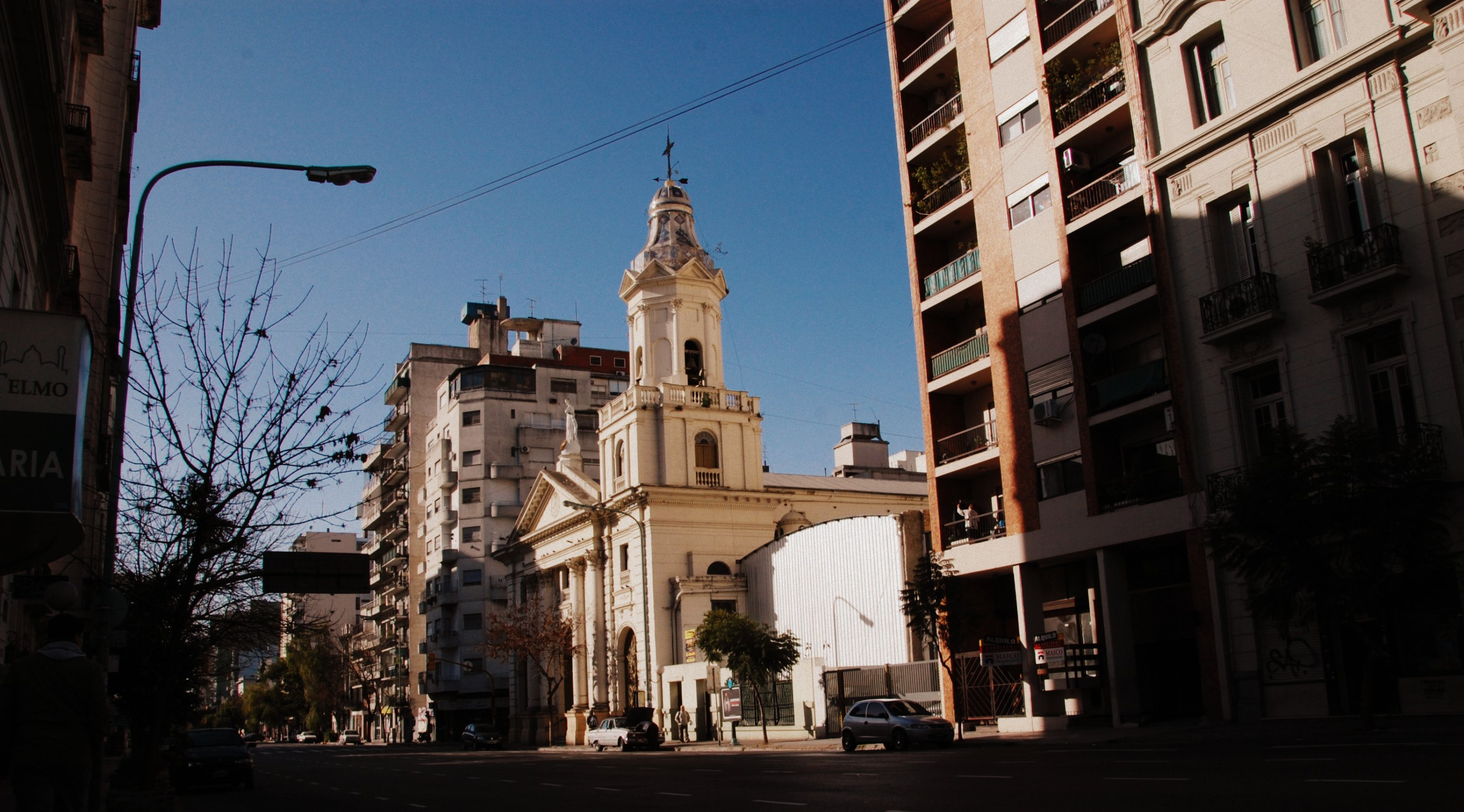 Church of the Immaculate Conception, Independencia Avenue, Buenos Aires.